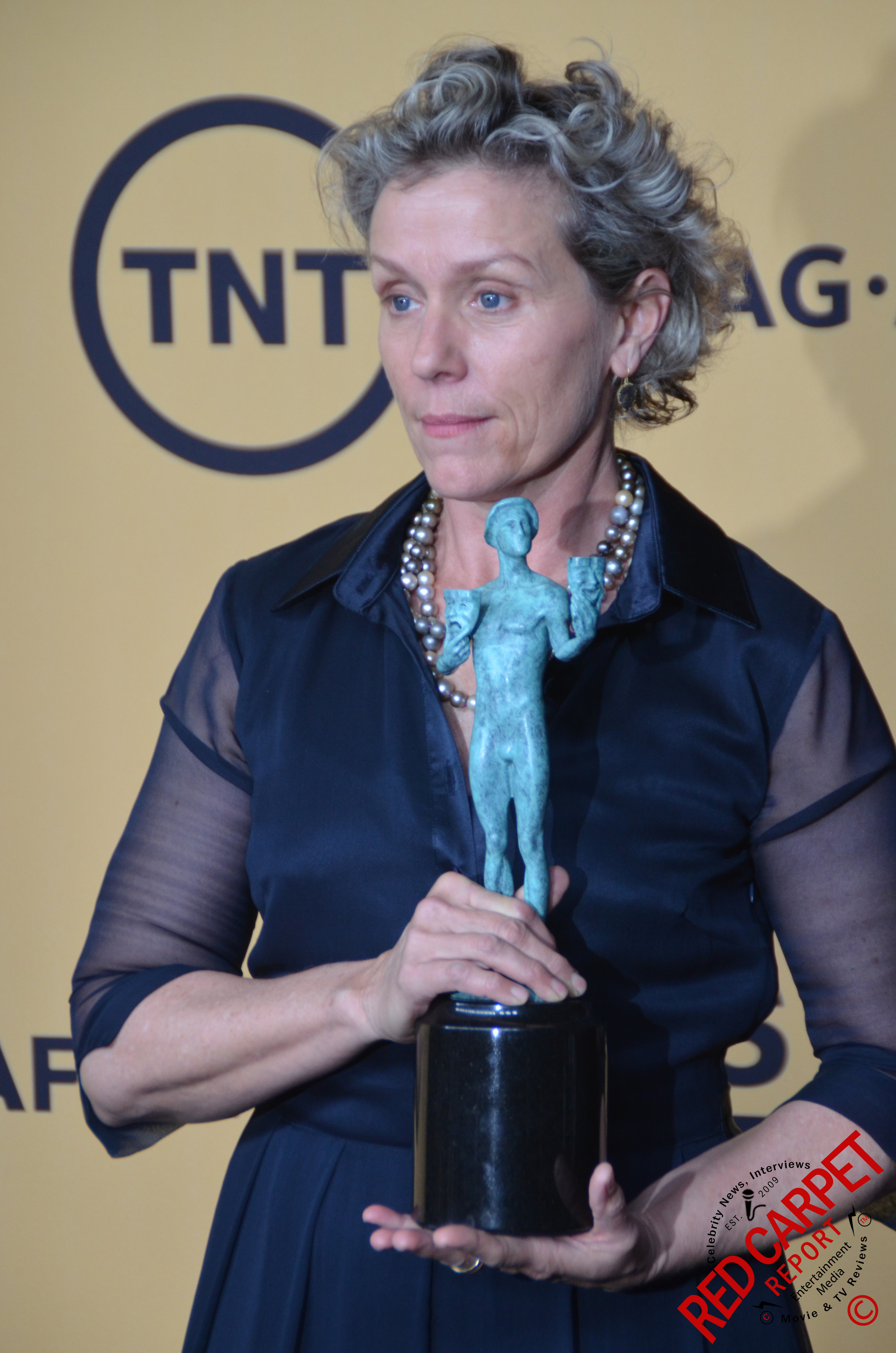 Frances McDormand at 21st Annual Screen Actors Guild Awards